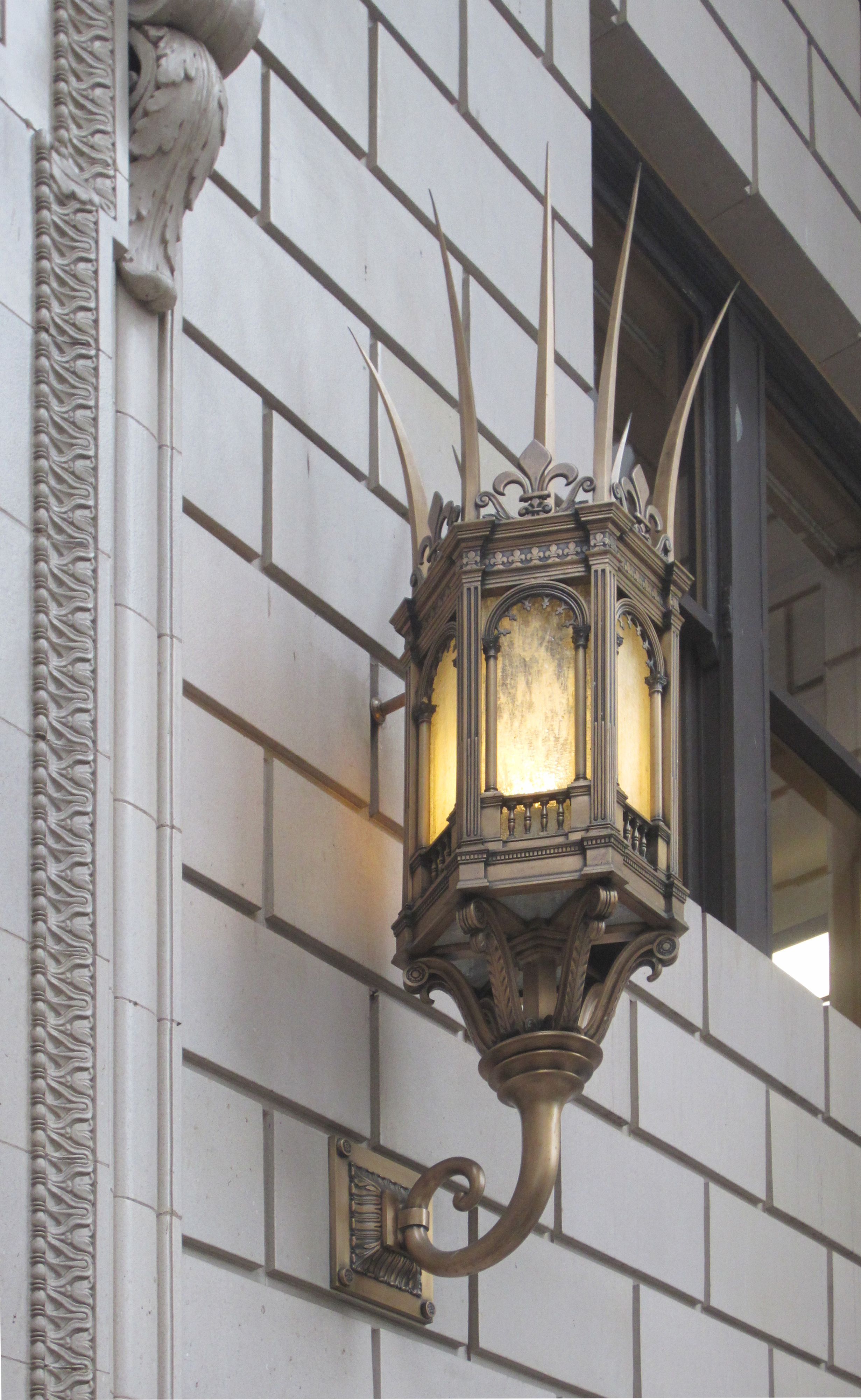 Bronze lighting fixture on the western façade of the United States National Bank Building, in Portland, Oregon (2013)